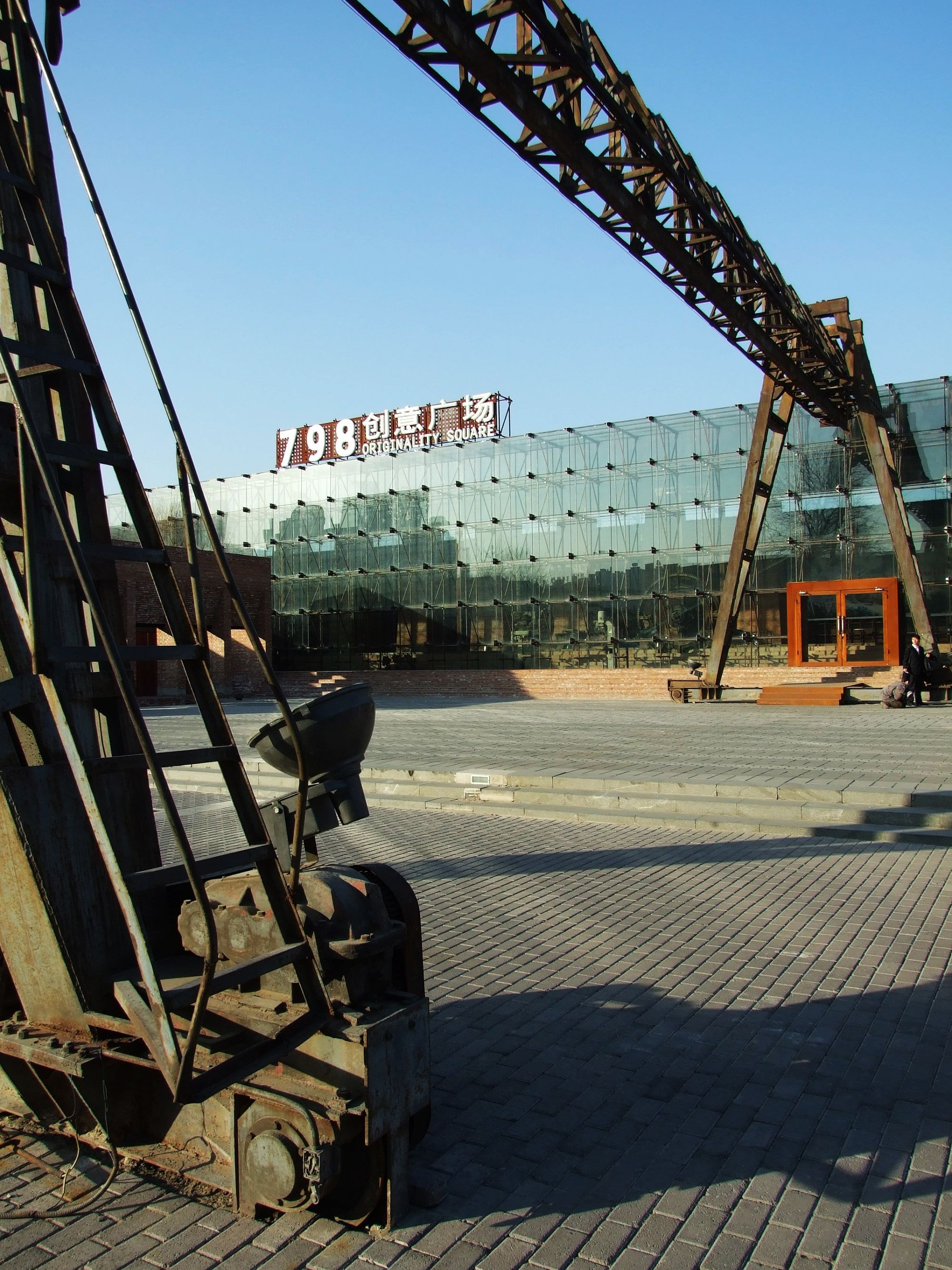 The originality square of 798 Art Zone 中文（中国大陆）: 798创意广场